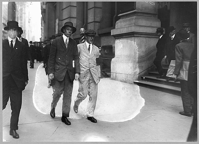 Upton Sinclair wearing a white suit and armband picketing the Rockefeller Building in New York City. (Original title: Photograph shows author Upton Beall Sinclair Jr. (1878-1968), (on right) who was arrested on April 29, 1914 for protesting conditions of Colorado coal miners in front of the offices of John D. Rockefeller at the Standard Oil Building, New York City.)